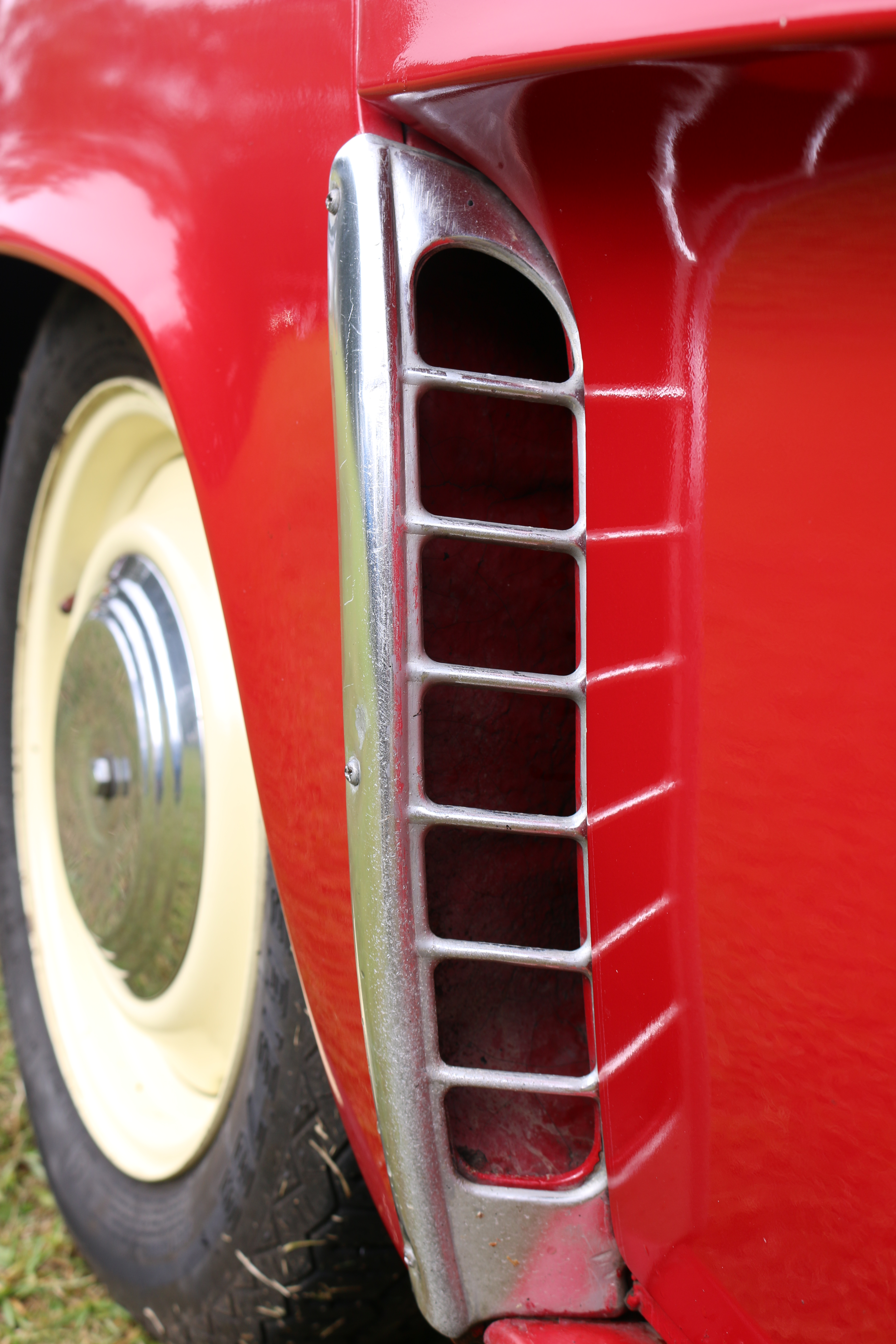 All French Day, Silverwater Park, NSW July 2016